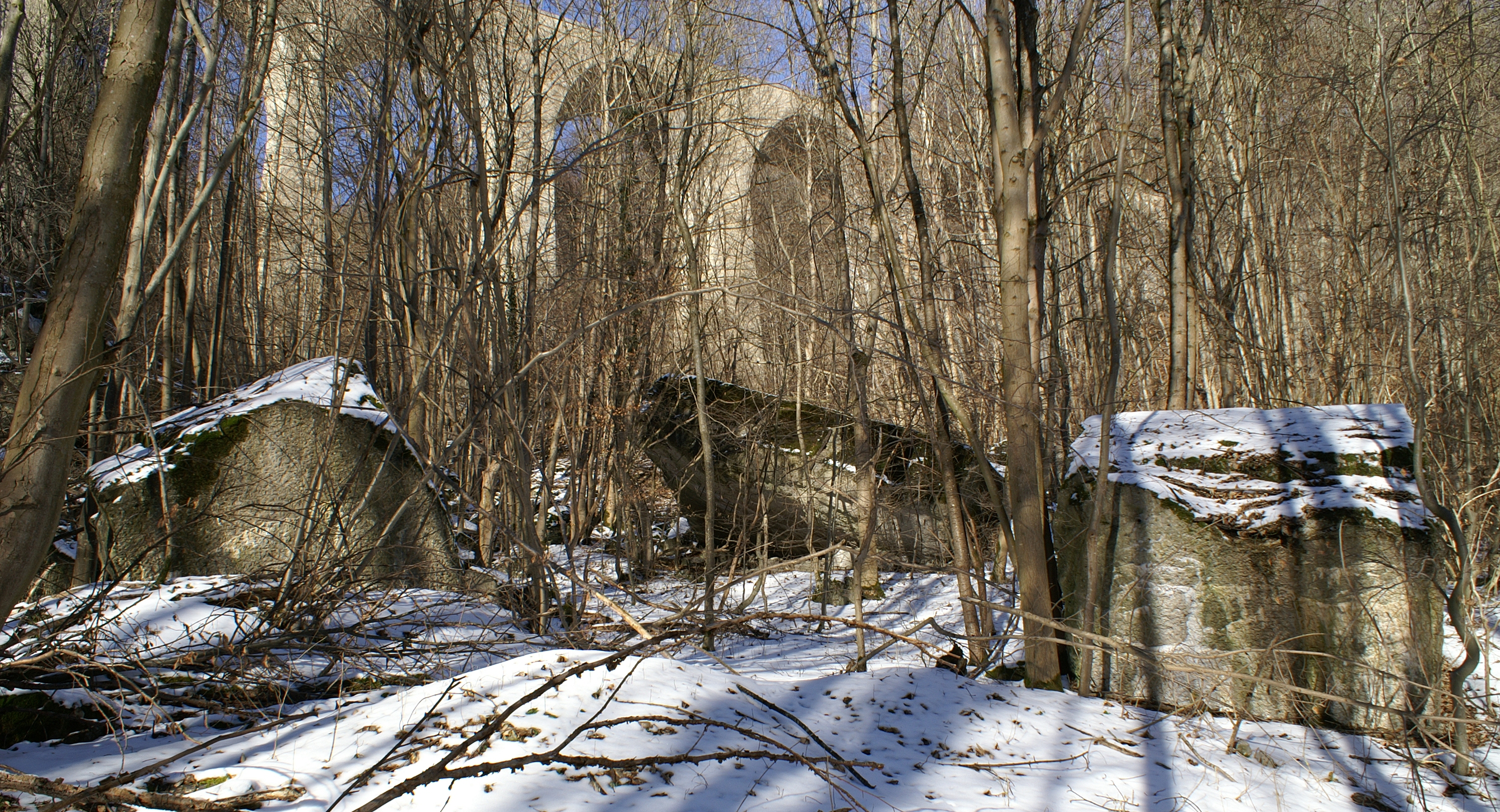 The ruins beneath the Drachenloch bridge have been there since demolition in 1945, and are under cultural heritage protection.